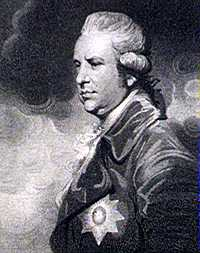 George Earl Macartney